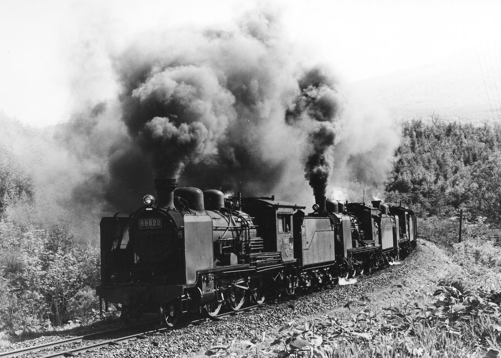 JNR SteamLoco 8620 Triple header